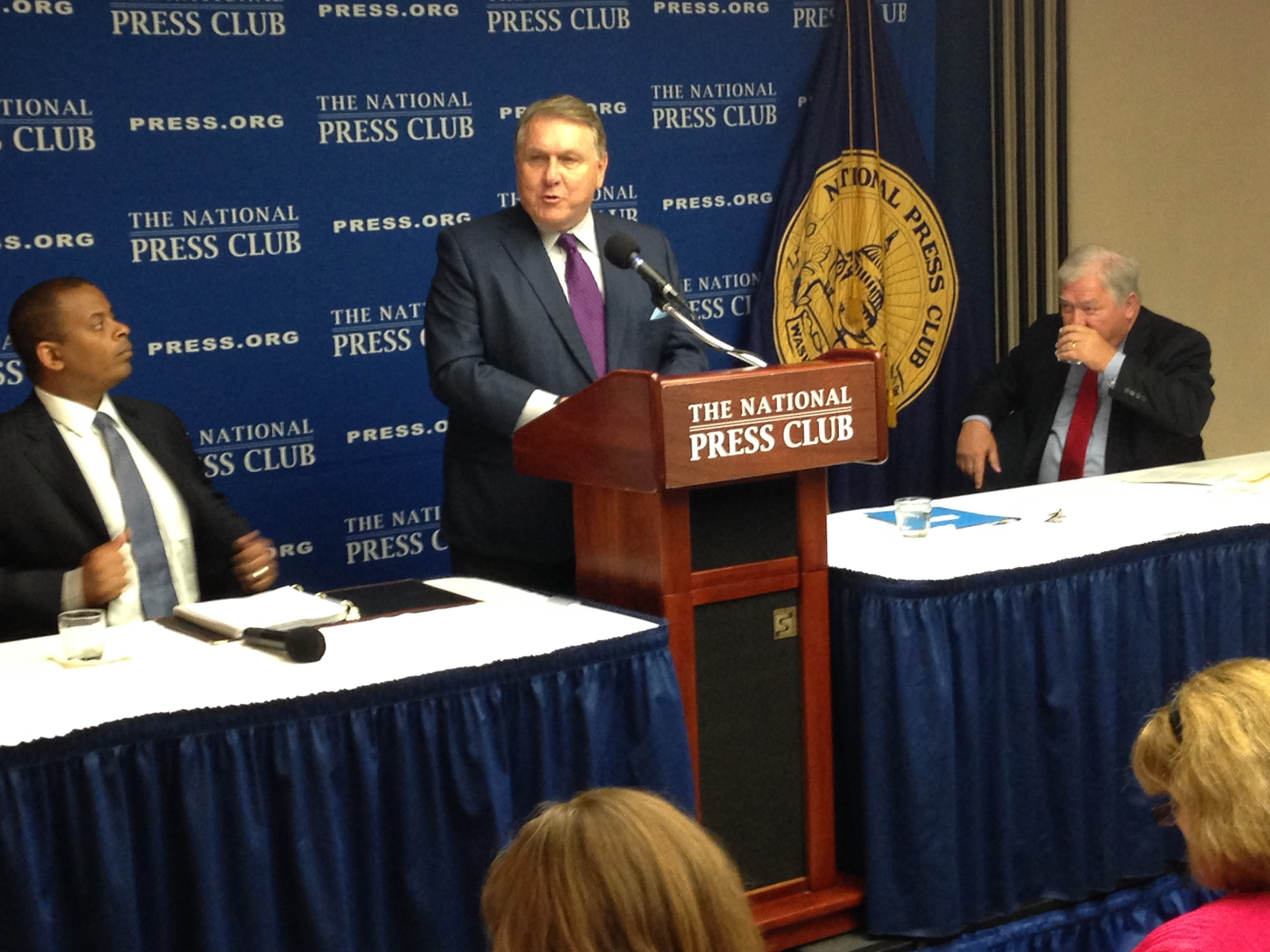 James P. Hoffa discussing the need for infrastructure investment at the National Press Club in Washington, D.C.